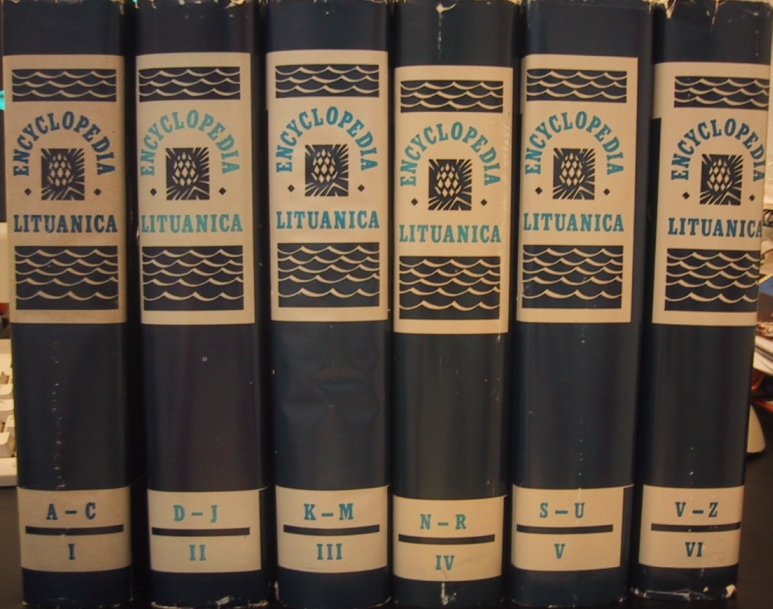 Encyclopedia Lituanica, 6 volumes with removable covers. Published by Juozas Kapočius, in 1970-1978 in Boston, Massachusetts.